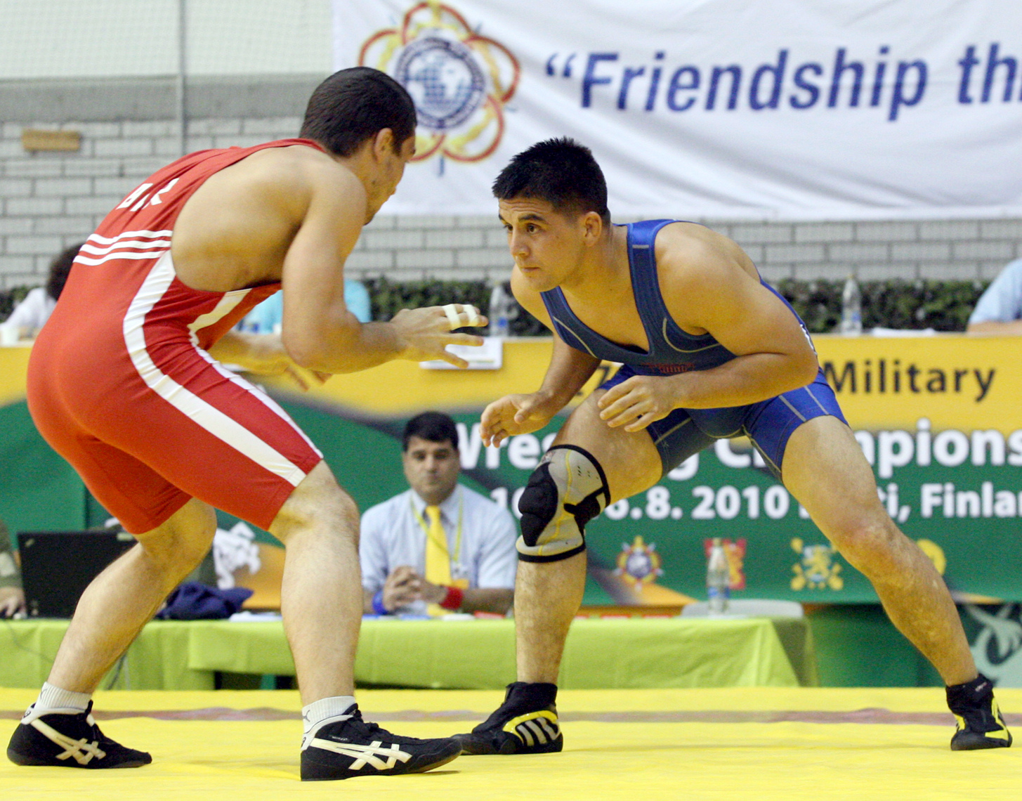 All-Army wrestler Pvt. Angel Cejudo (right), who trains with U.S. Army World Class Athlete Program wrestlers at Fort Carson, Colo., defeats Zhan Safian of Belarus 0-2, 3-0, 2-1 for third place in the 66-kilogram/145.5-pound freestyle division of the Conseil International du Sport Militaire's 27th World Military Wrestling Championships Aug. 12 in Lahti, Finland.